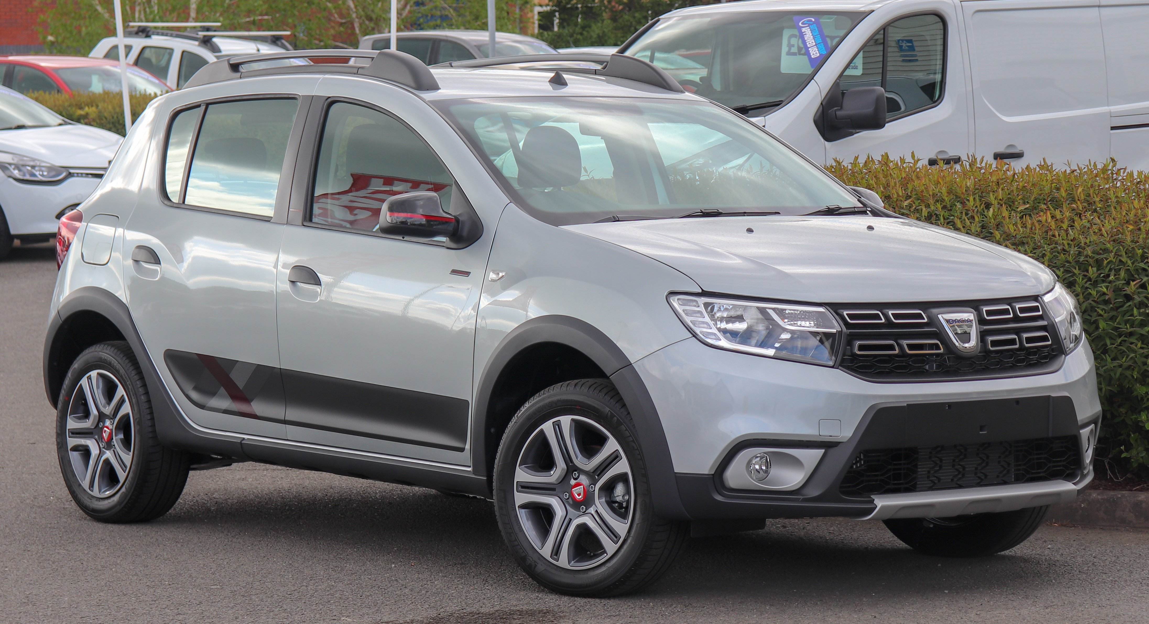 2019 Dacia Sandero Stepway Techroad Front Taken in Leamington Spa